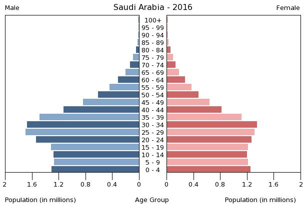 The population pyramid of Saudi Arabia illustrates the age and sex structure of population and may provide insights about political and social stability, as well as economic development. The population is distributed along the horizontal axis, with males shown on the left and females on the right. The male and female populations are broken down into 5-year age groups represented as horizontal bars along the vertical axis, with the youngest age groups at the bottom and the oldest at the top. The shape of the population pyramid gradually evolves over time based on fertility, mortality, and international migration trends.